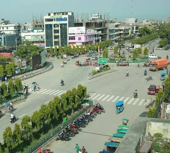 Itahari